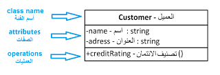 class digrams structure